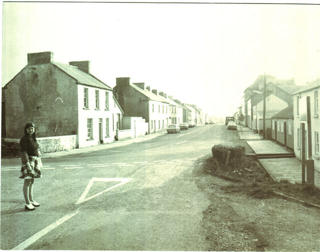 Trillick, County Tryone The main street is heading south-west towards Enniskillen